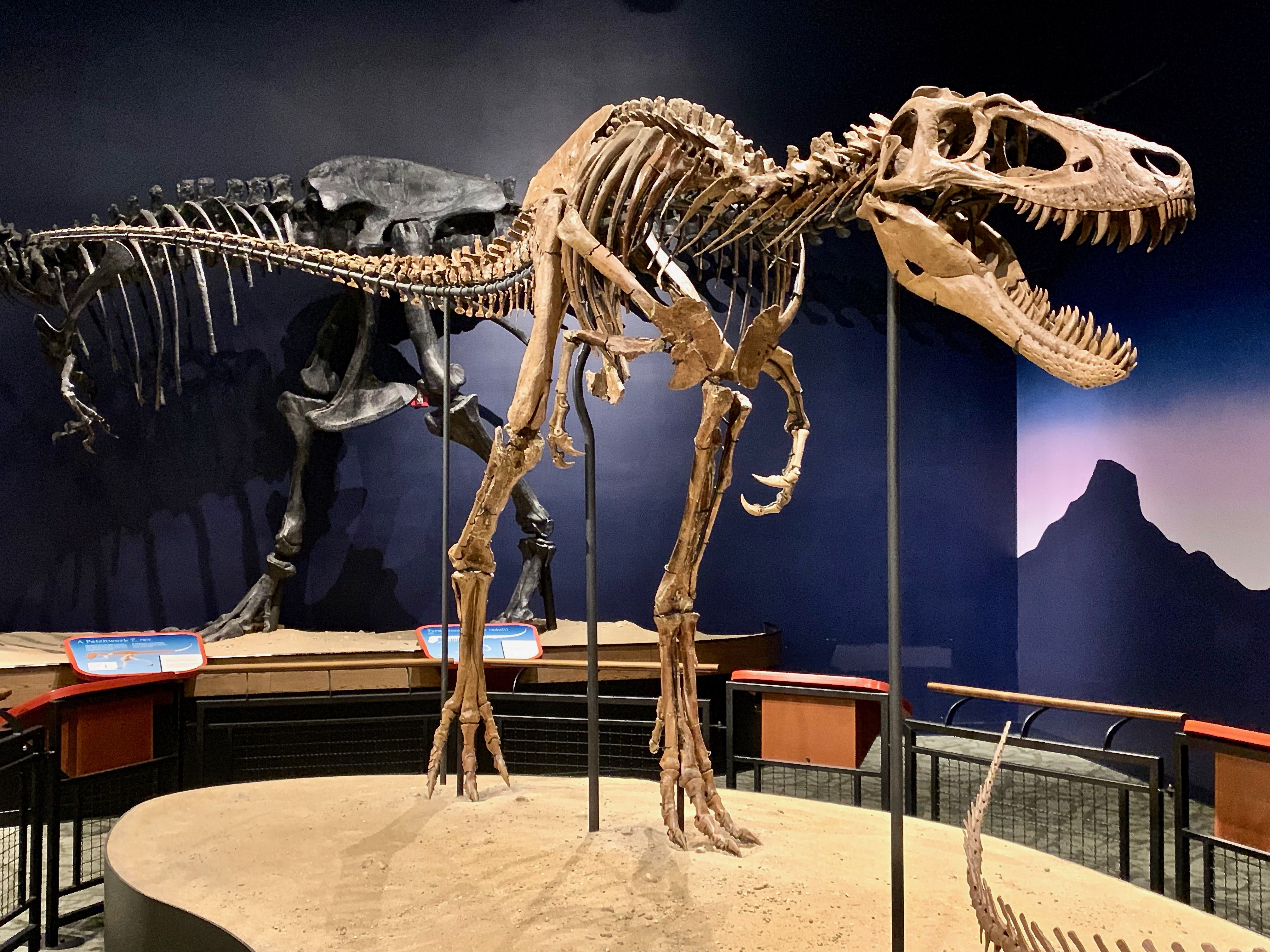 Skeletal mount of "Jane" the 11 year-old Tyrannosaurus rex, on display at the Burpee Museum of Natural History, Rockford, Illinois